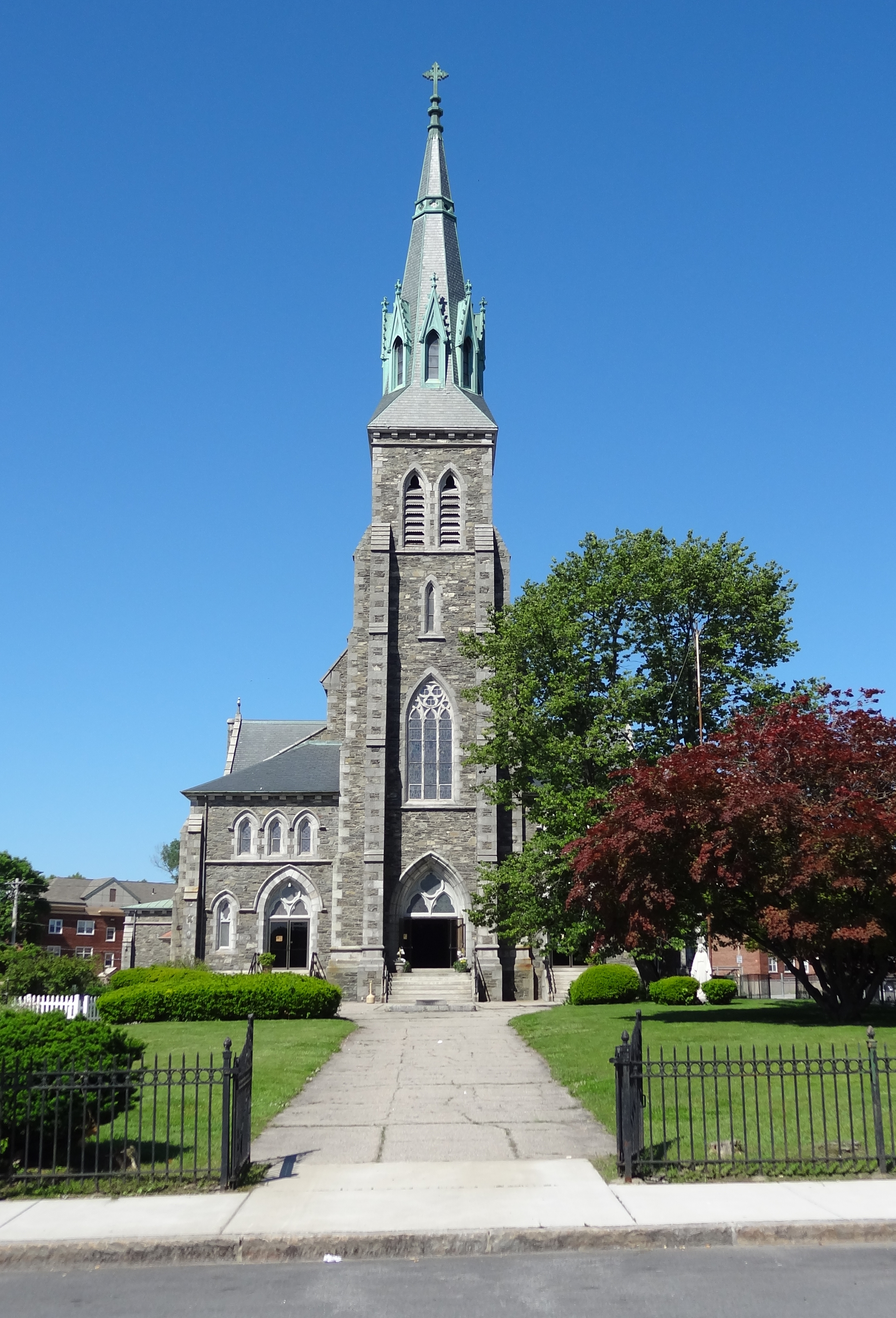 Saint Patrick Church, located at 284 Suffolk Street, Lowell, Massachusetts. East (front) side shown.